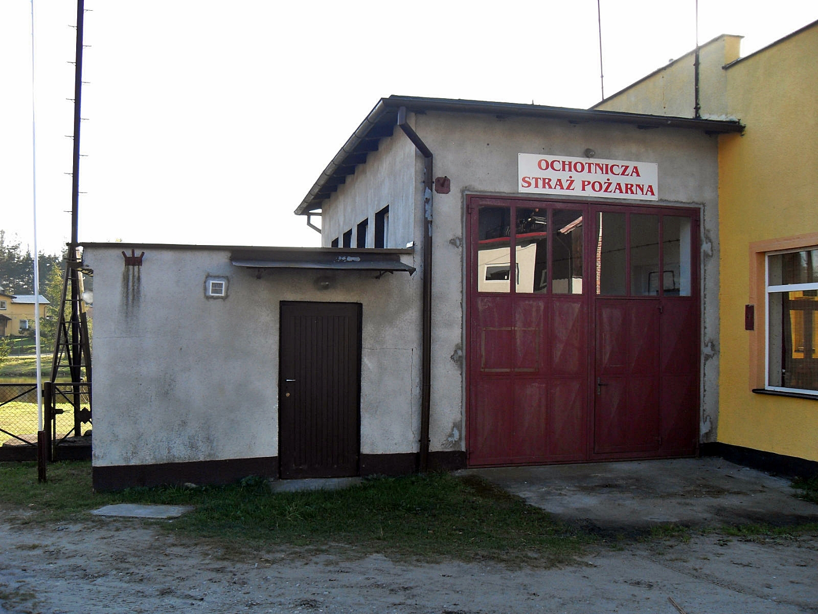 OSP shed Piece